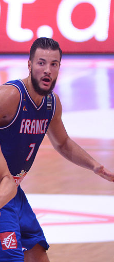 Joffrey Lauvergne, Eurobasket, 2015, France/Allemagne